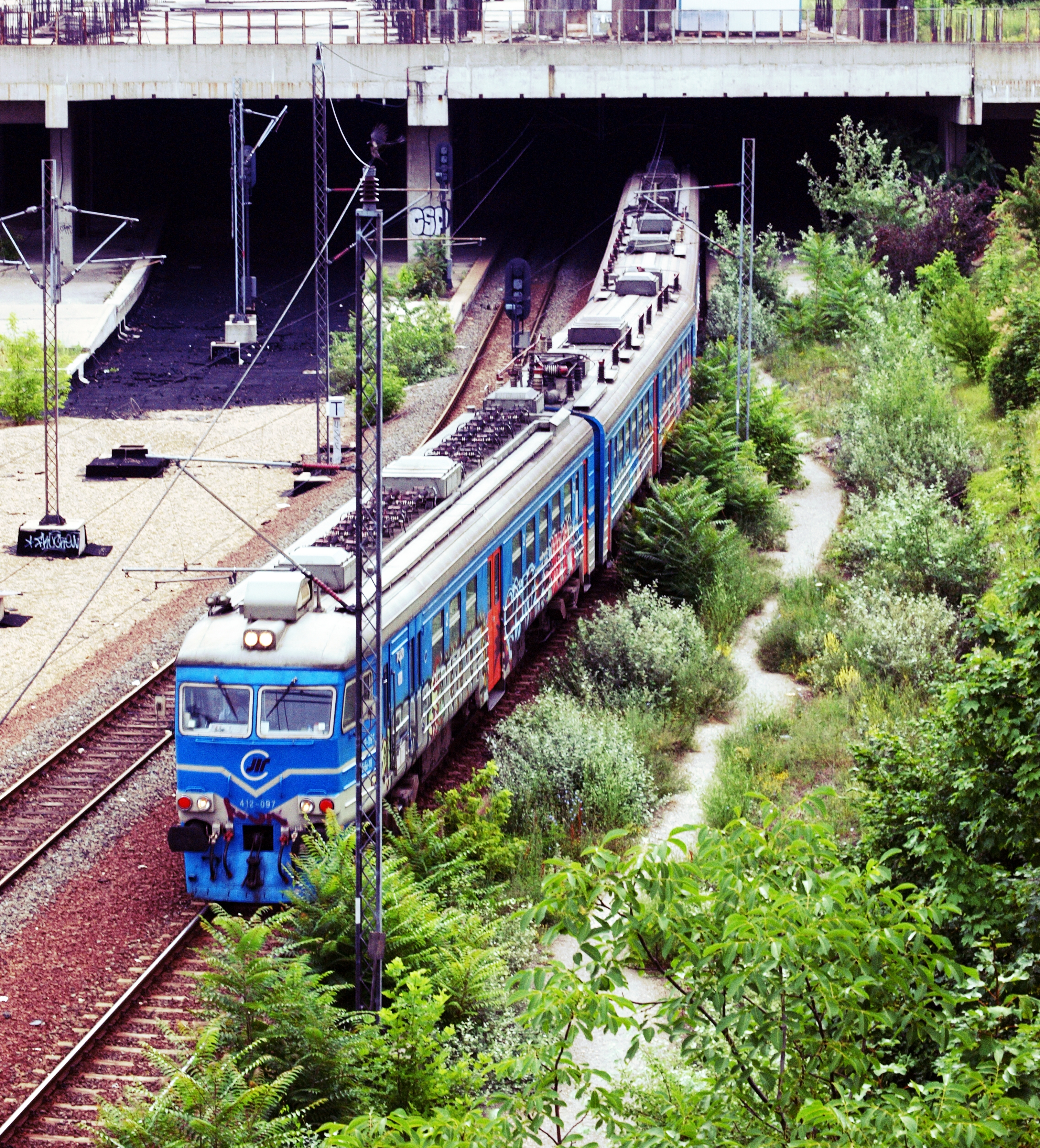 Blue train leaving Prokop